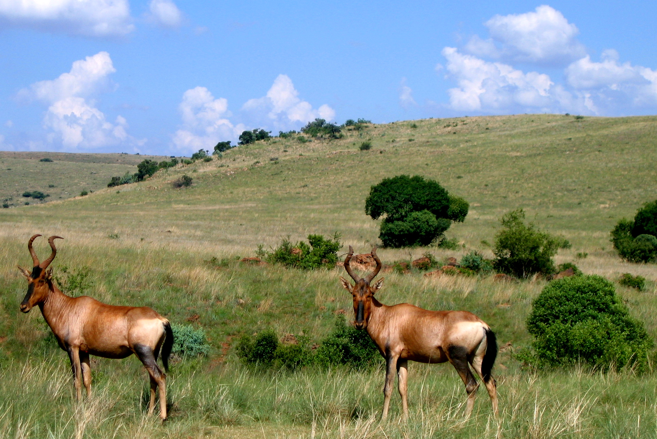 Red Hartebeest (Alcelaphus caama) in the Rhino and Lion Nature Reserve, Gauteng, South Africa.